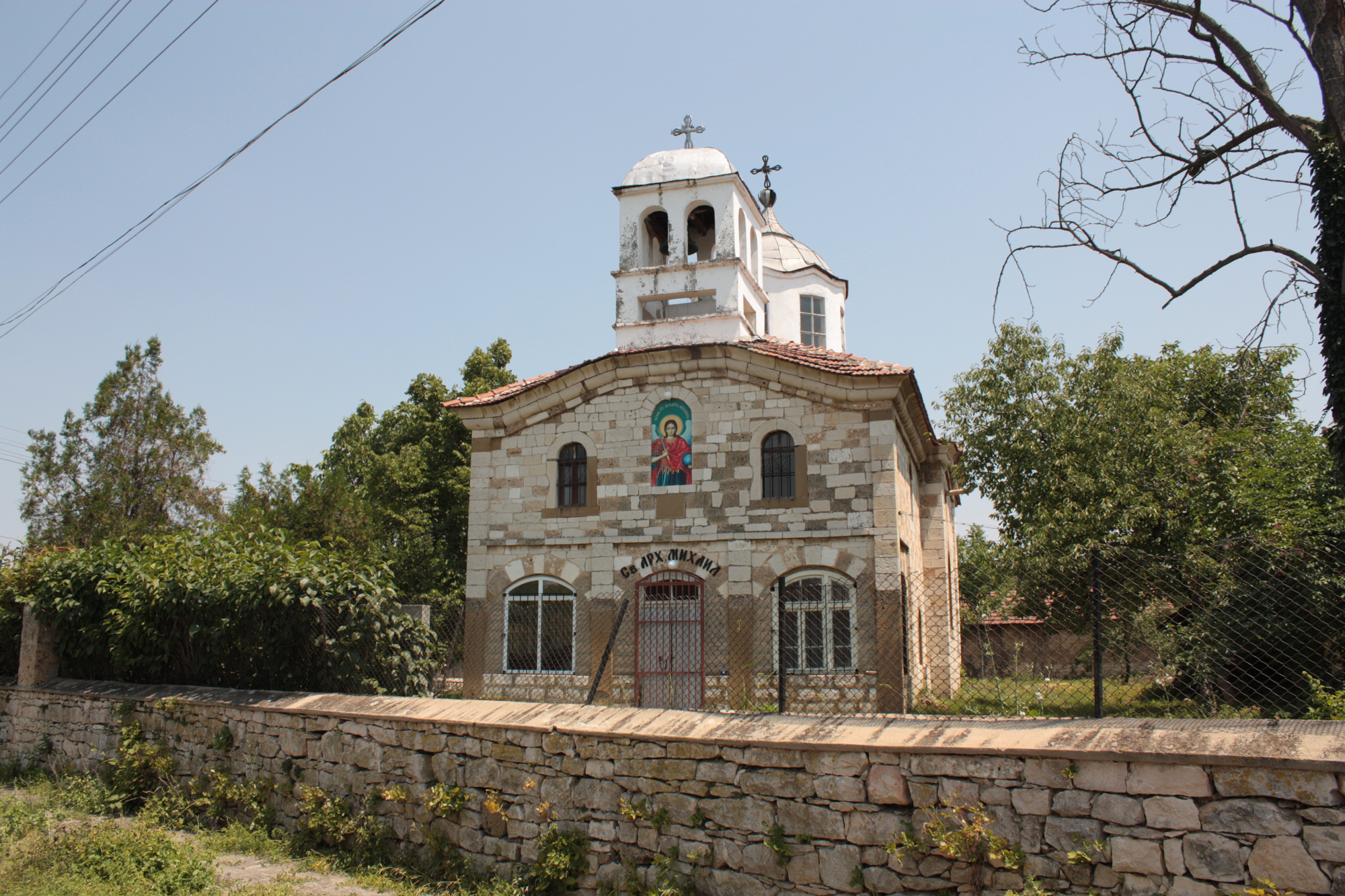 Krushuna church St. Archangel Michael